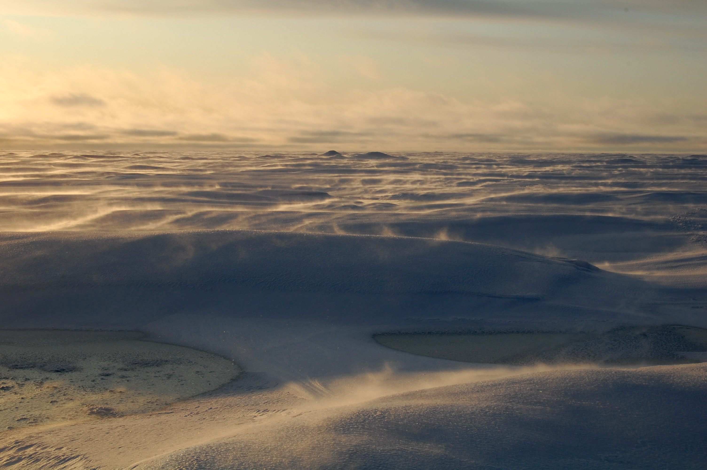 Drifting snows